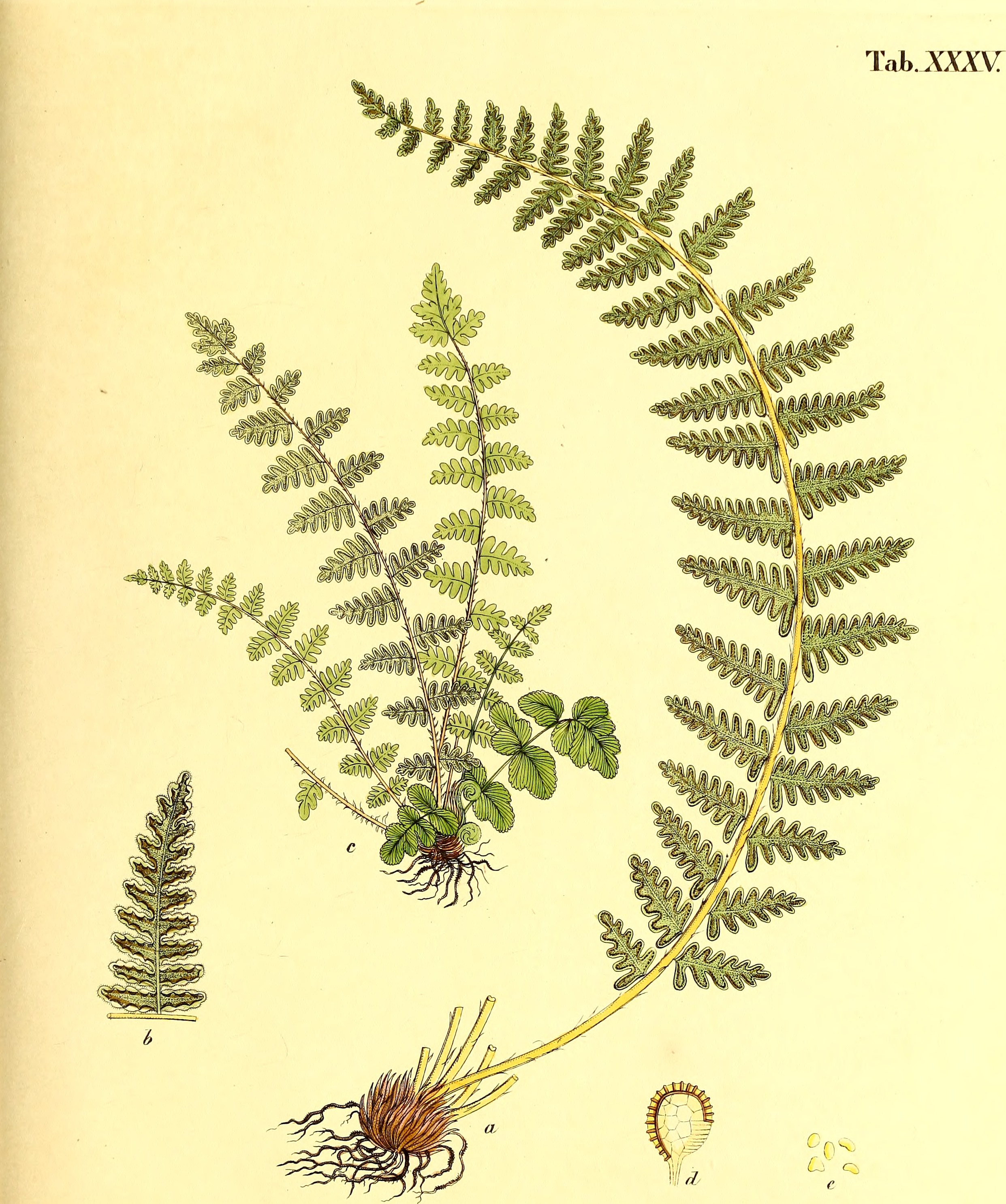 Title: Die Farrnkräuter in kolorirten Abbildungen naturgetreu Erläutert und Beschrieben Year: 1840 (1840s) Authors: Kunze, Gustav, 1793-1851 Subjects: Ferns Publisher: Leipzig, E. Fleischer Text Appearing Before Image: ' Text Appearing After Image: CheHanflies canescens Si^fi^nh ad n^^.df l. '